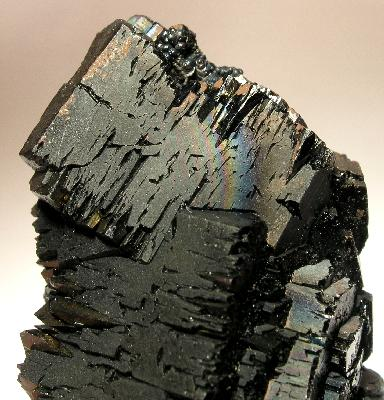 Manganite Locality: Atikokan, Hutchinson Township, Rainy River District, Ontario, Canada (Locality at ) Size: miniature, 4 x 2.7 x 2 cm Manganite Choice Manganite that has blocky crystals up to 1.2 cm with razor-sharp edges and excellent luster. It is very rare to find Manganites in this habit and size with such quality. Marty prided himself on obtaining some of the best from the miners as they came out in the 1990s and I regard this as a very important and significant specimen.